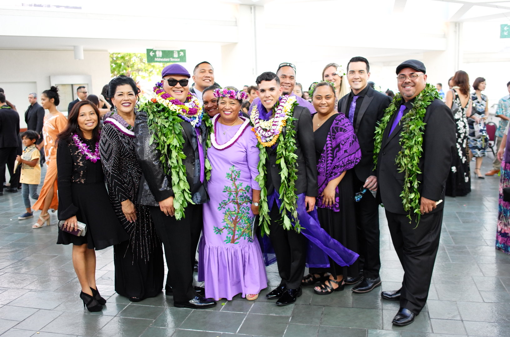 Kalani Pe'a and family. 2017 Na Hoku Hanohano Awards. Honolulu HI